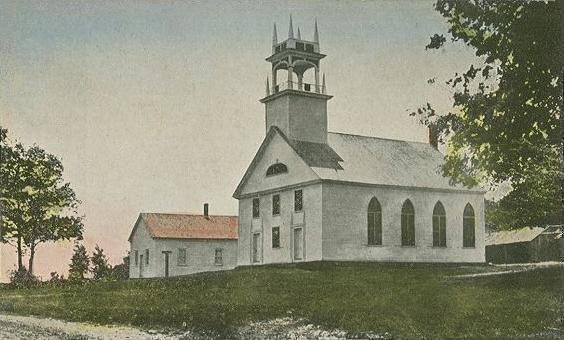 Bay Meeting House, Sanbornton, New Hampshire. It was built in 1836.